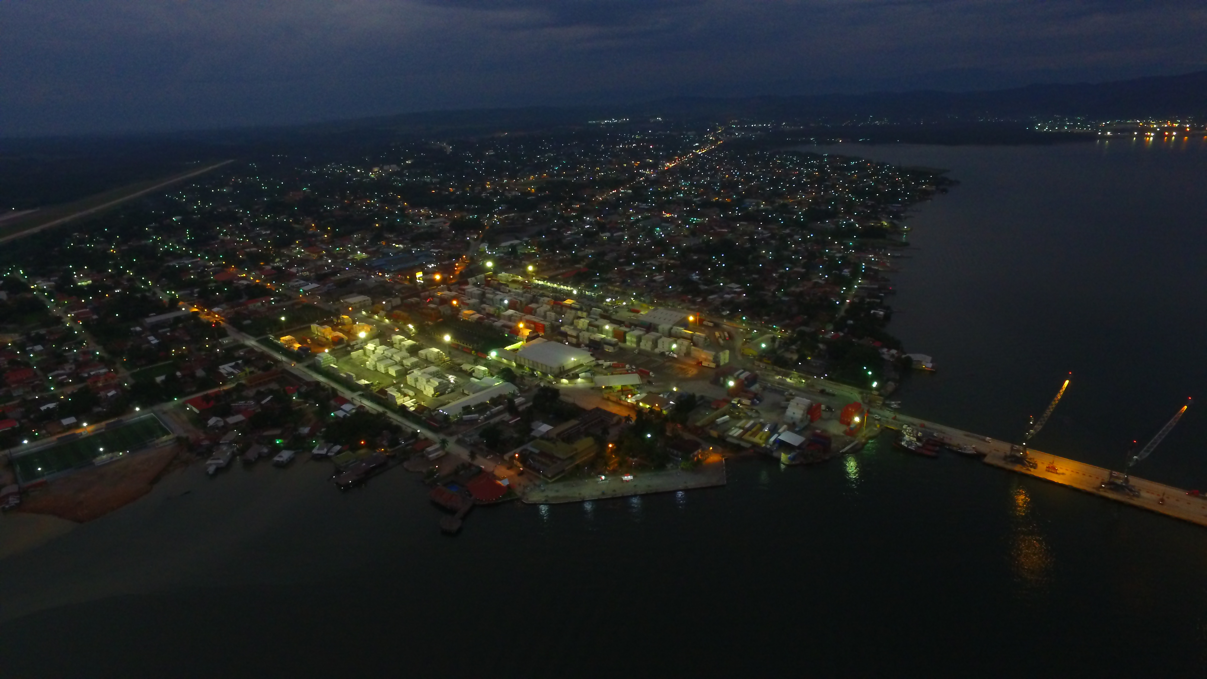 Panoramic view of Puerto Barrios at night